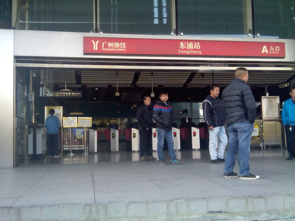 东涌站A出入口